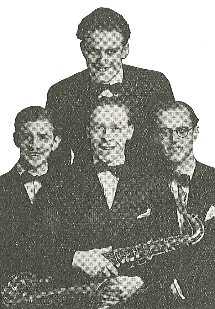 Carl-Henrik Norin (1920-1967), Swedish jazz saxophonist, bandleader, composer and arranger with his quartet in 1943. Front row from left: Bertil Frylmark, Norin himself and Ingemar Eriksson. Behinfd them Simon Brehm.